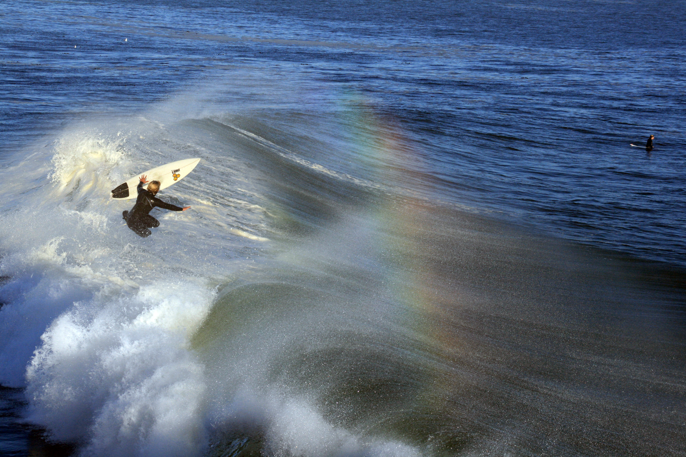 A surfer in Santa Cruz, California